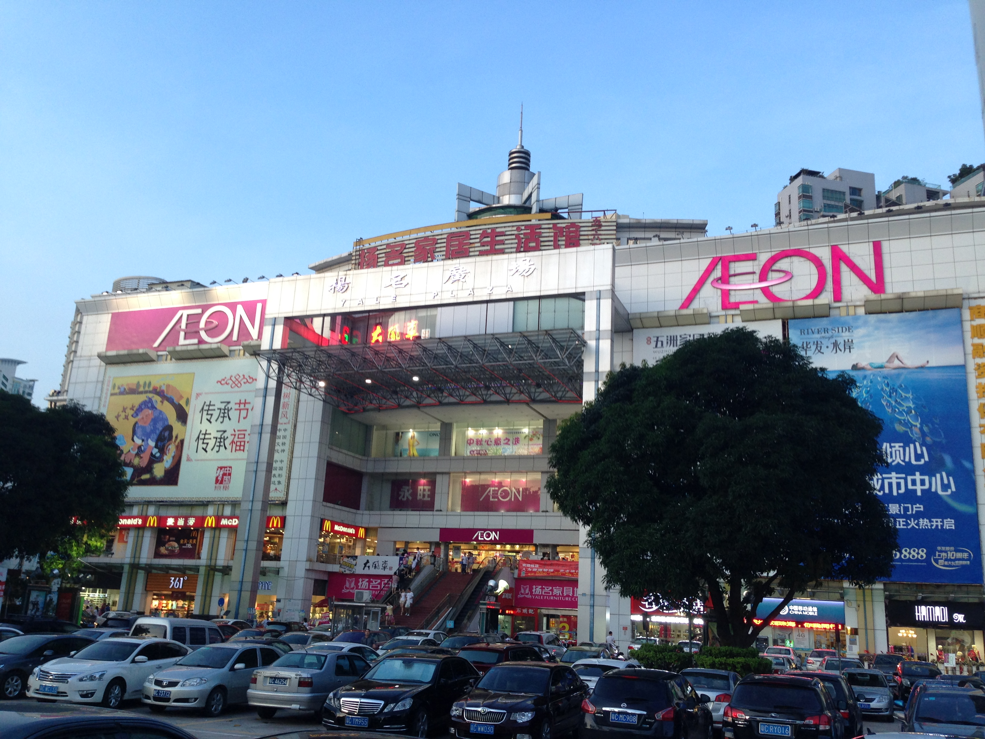 AEON in Zhuhai